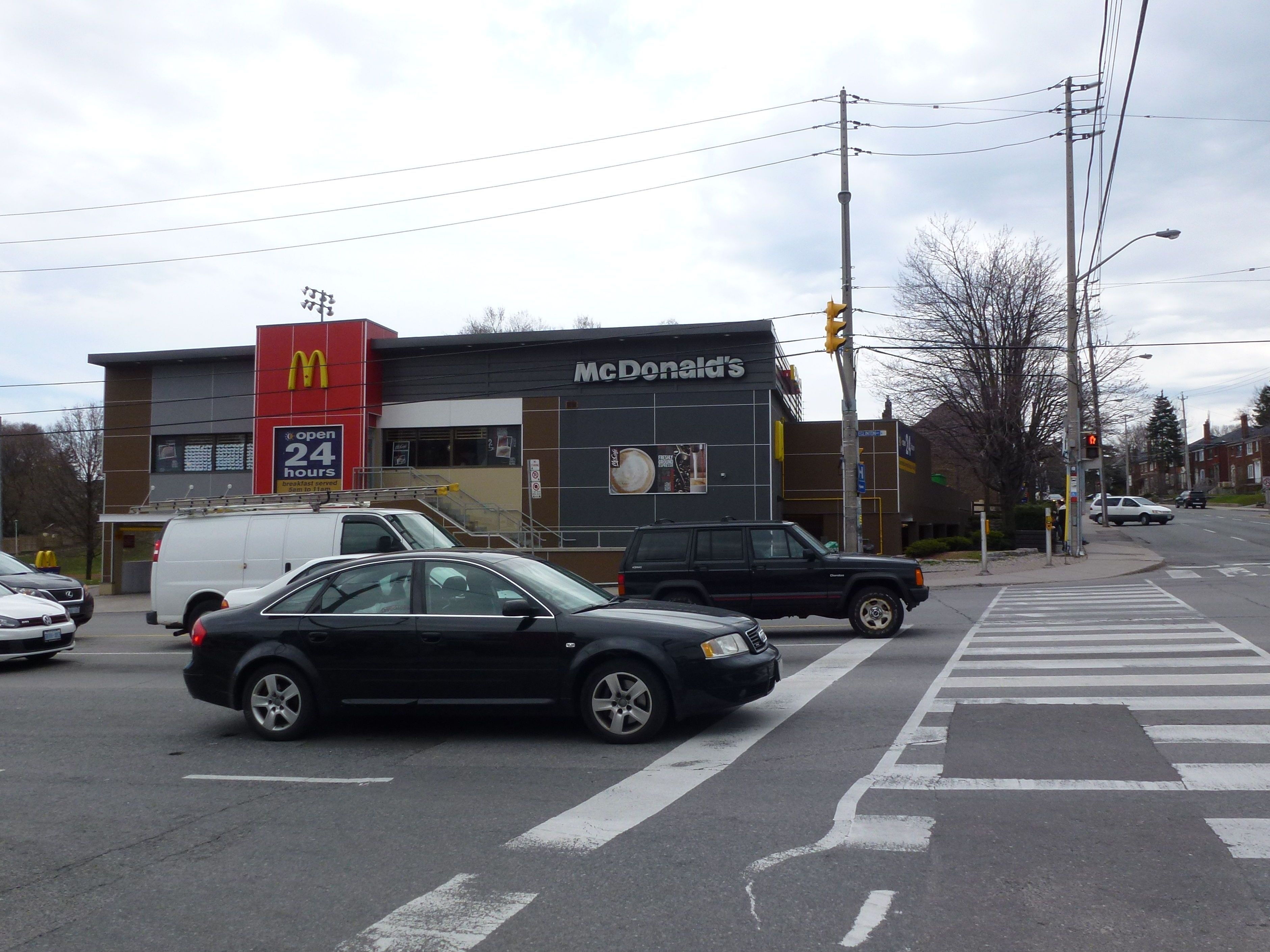 Eglinton Avenue and Bayview Avenue, SE corner, in Toronto. The McDonald's restaurant is the site of an Eglinton Crosstown LRT station. On April 9, 2013, the day the first tunnel boring machine started to bore the Eglinton Crosstown, I bought a TTC day pass and got off to take "before" pictures of the site of every future underground station between Mount Dennis and Yonge Street. On April 25 I took photos of most of the stations east of Yonge. I plan to return for "after" pictures when the Crosstown opens in 2020. This photo was taken near the future site of the Bayview Avenue LRT Station. Original caption: "Parts of panoramas of intersections where there will be Eglinton Crosstown LRT stations, GPS embedded, taken 2013 04 25"